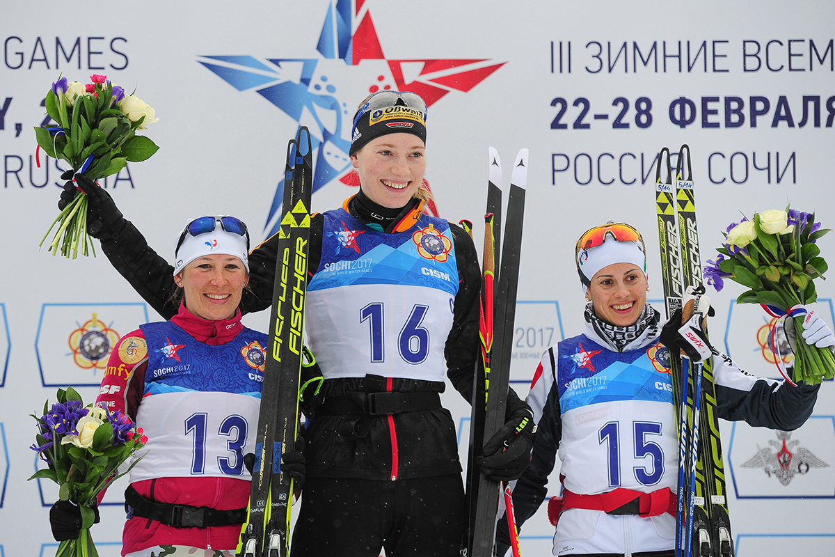 Коралина Томас Хюге из Франции (второе место), Тереза Элчхорн из Германии (первое место) и Франческа Баудини из Италии (третье место) на лыжных гонках среди женщин на дистанции 10 км на III Зимних Всемирных военных играх. Лыжно-биатлонный комплекс «Лаура», Сочи, Россия. 24 февраля 2017. Фото Alexander Fedorov/CISM2017Coraline THOMAS HUGUE of France (second place), Theresa ELCHHORN of Germany (first place) and Francesca BAUDIN of Italy (third place) at the Cross Country Skiing Women 10 km event on the 3rd CISM World Winter Games. Laura Cross-Country Ski&Biathlon Centre, Sochi, Russian Federation. February 24, 2017. Photo by Alexander Fedorov/CISM2017